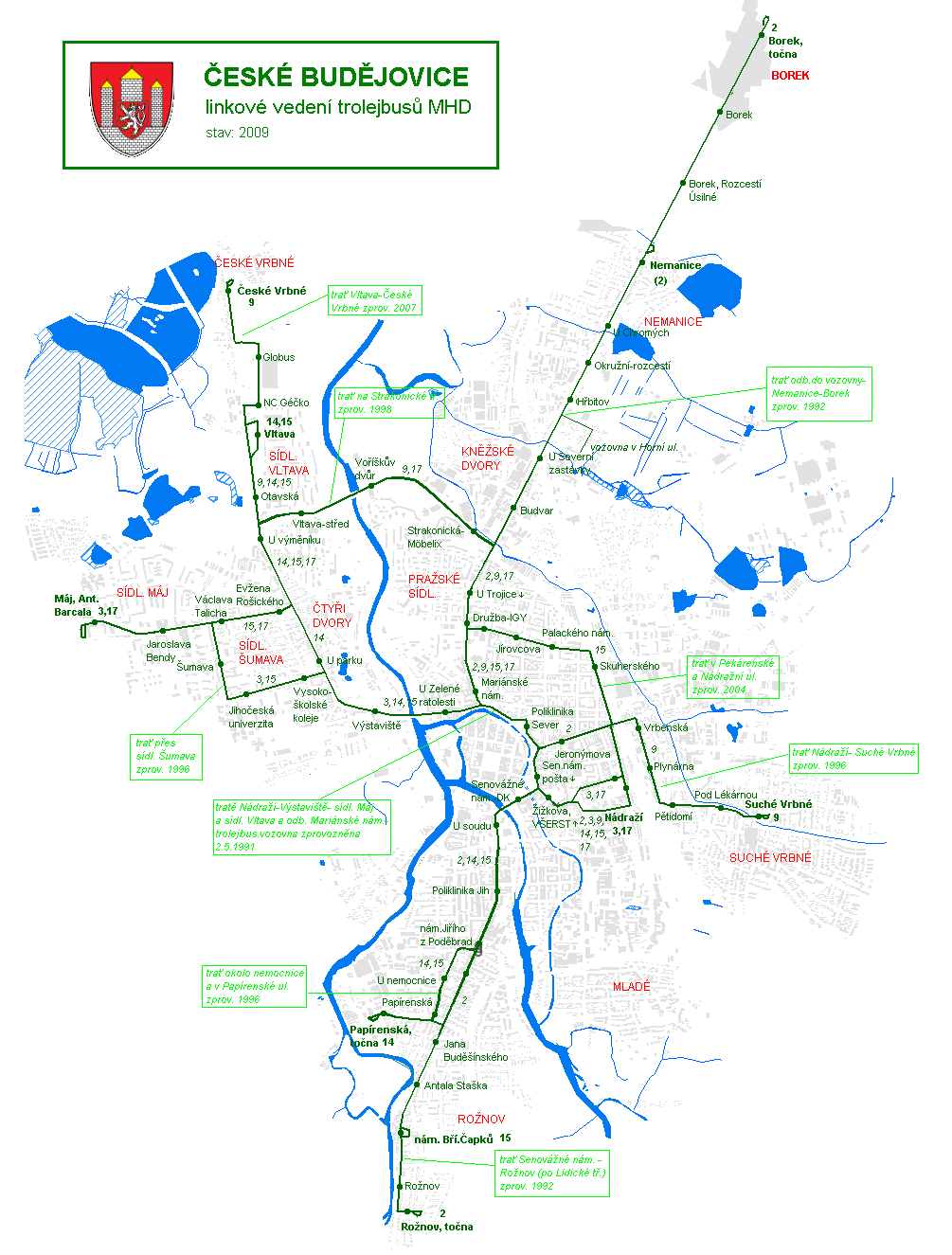 Map of trolleybuses lines net in České Budějovice.